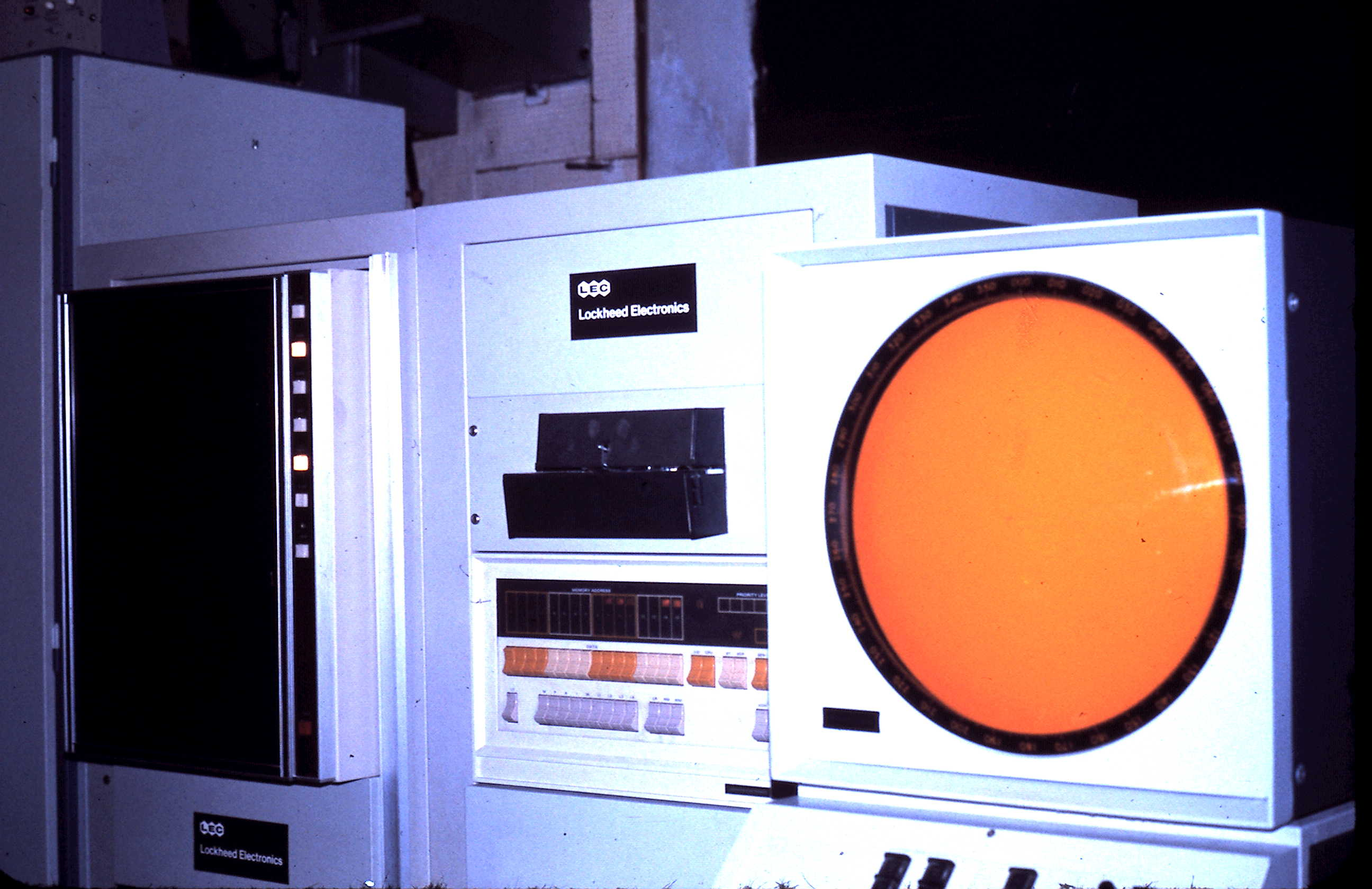 Lockheed Electronics Company MAC-16 in prototype ARTS II demonstration